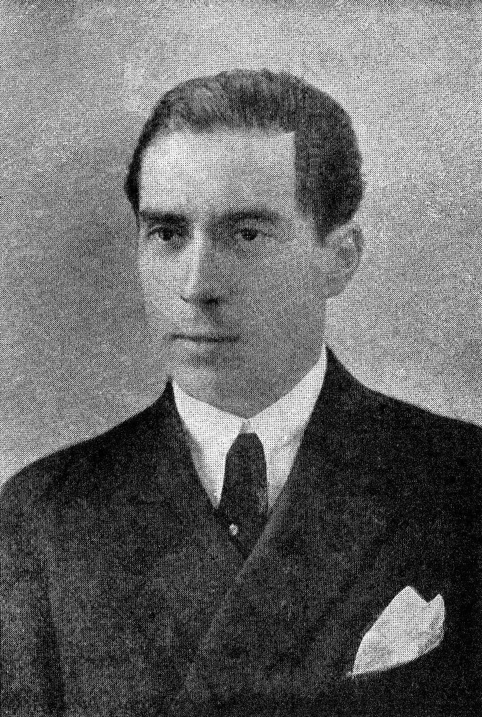 Ángel Cruchaga Santa María (Santiago de Chile, 23 March 1893 - Santiago de Chile, 5 September 1964). Chilean writer.